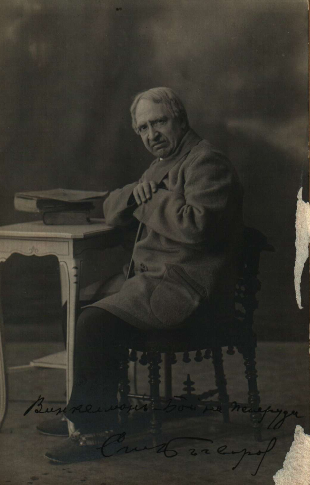 Bulgarian actor Stoyan Bachvarov (1878-1949) in "Battle of the Butterflies" by Hermann Sudermann in 1914.